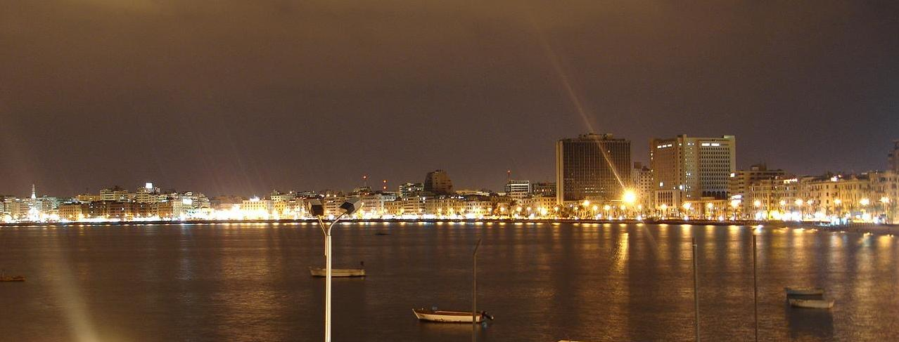 Alexandria, Egypt at night.